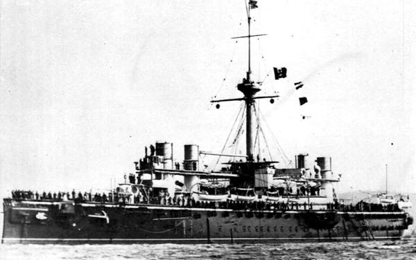 Italian battleship Lepanto at La Spezia, Italy